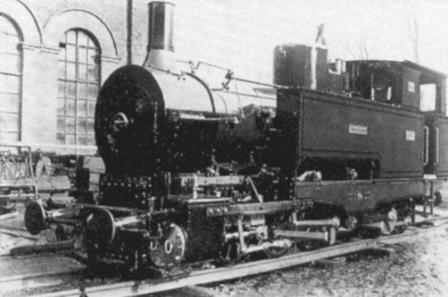 Hagans locomotive T36.